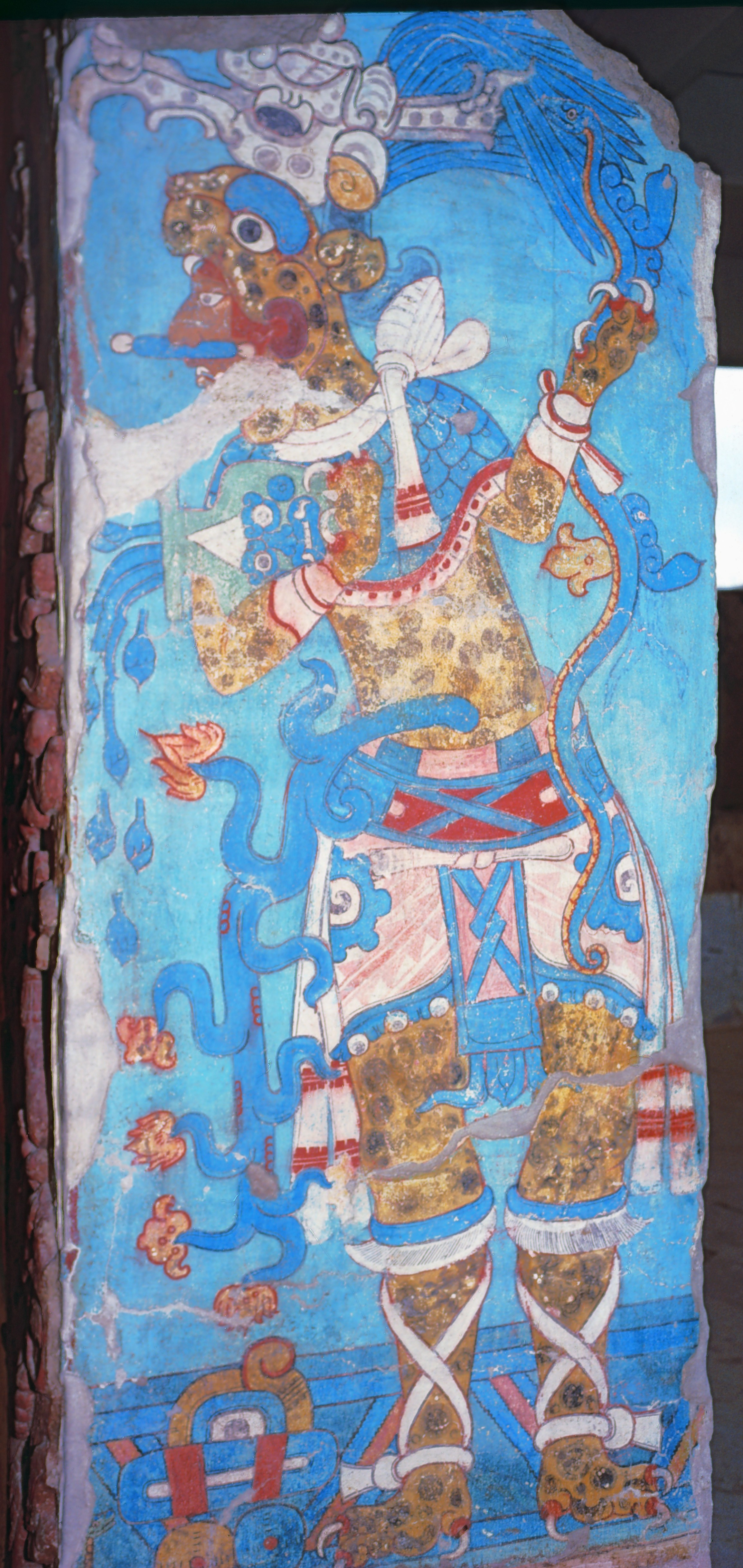 Cacaxtla, Tlaxcala, Mexico: Room 1, left doorjamb